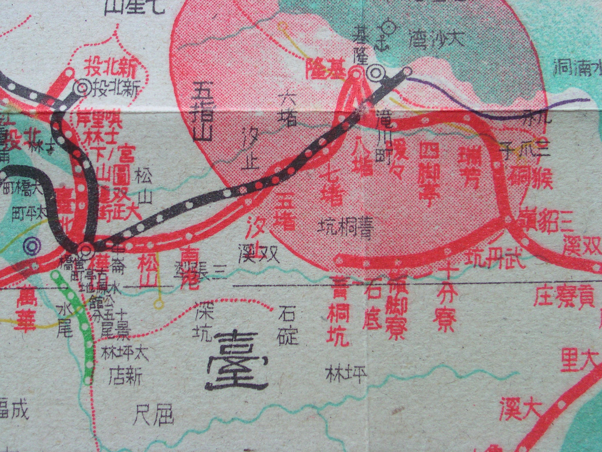 The map of Taihoku Tetsudō(臺北鐵道) LINE, Taiwan, Japan